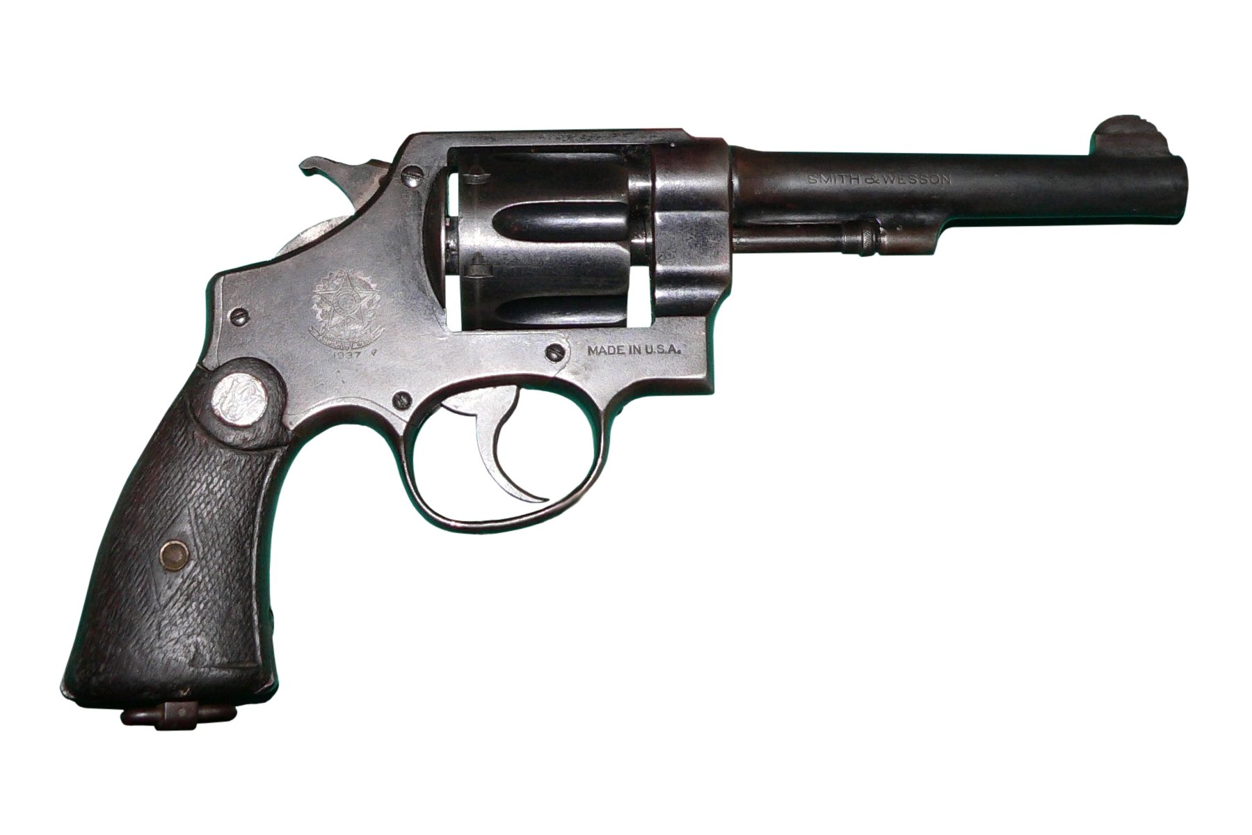 Smith & Wesson M1917 revolver.